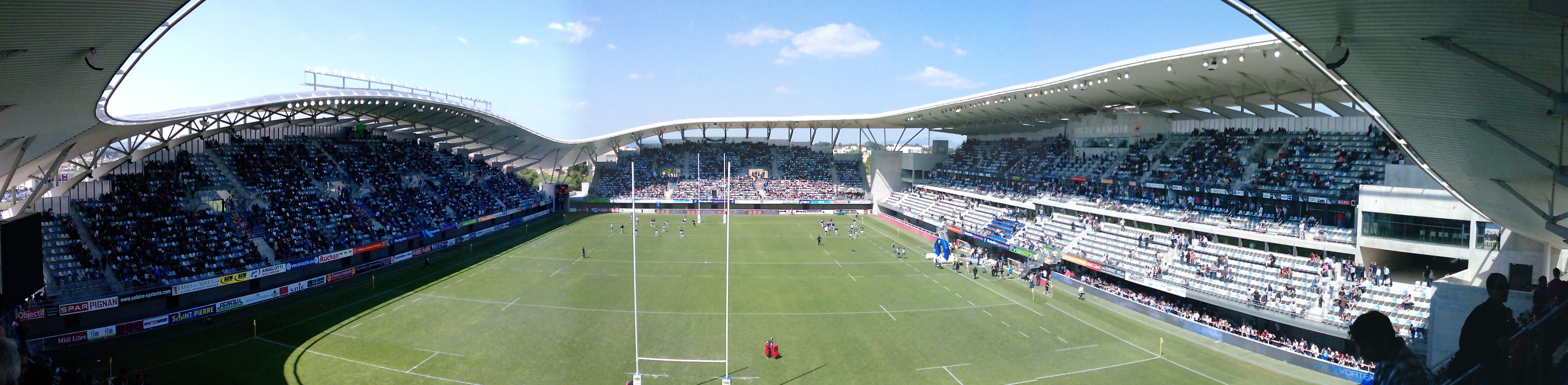 Yves-du-Manoir stadium of Montpellier (France).